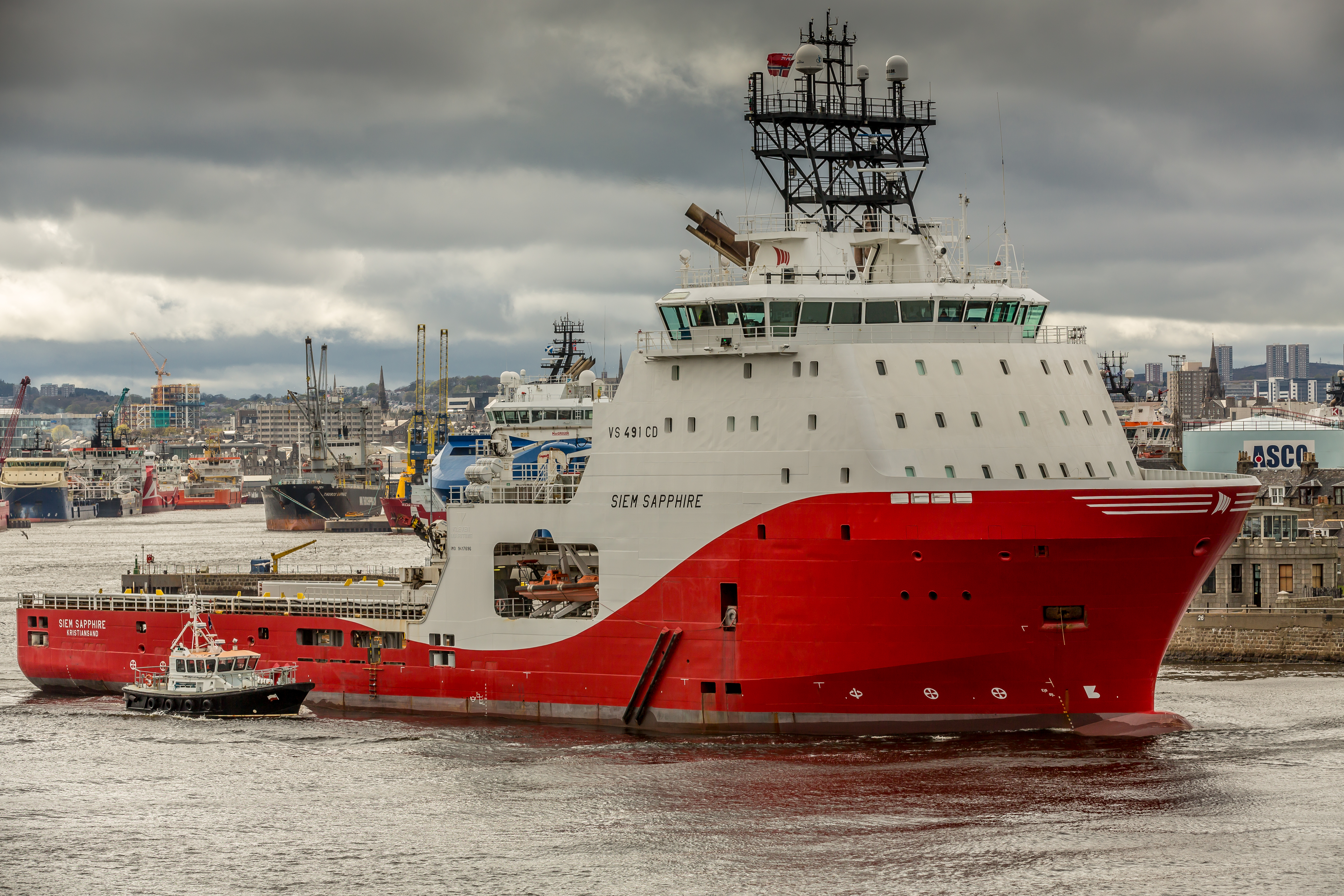 IMO: 9417696 MMSI: 257544000 Call Sign: LDTO Flag: Norway (NO) AIS Type: Tug Gross Tonnage: 7473 Deadweight: 4250 t Length × Breadth: 91m × 22.04m Year Built: 2010 Status: Active